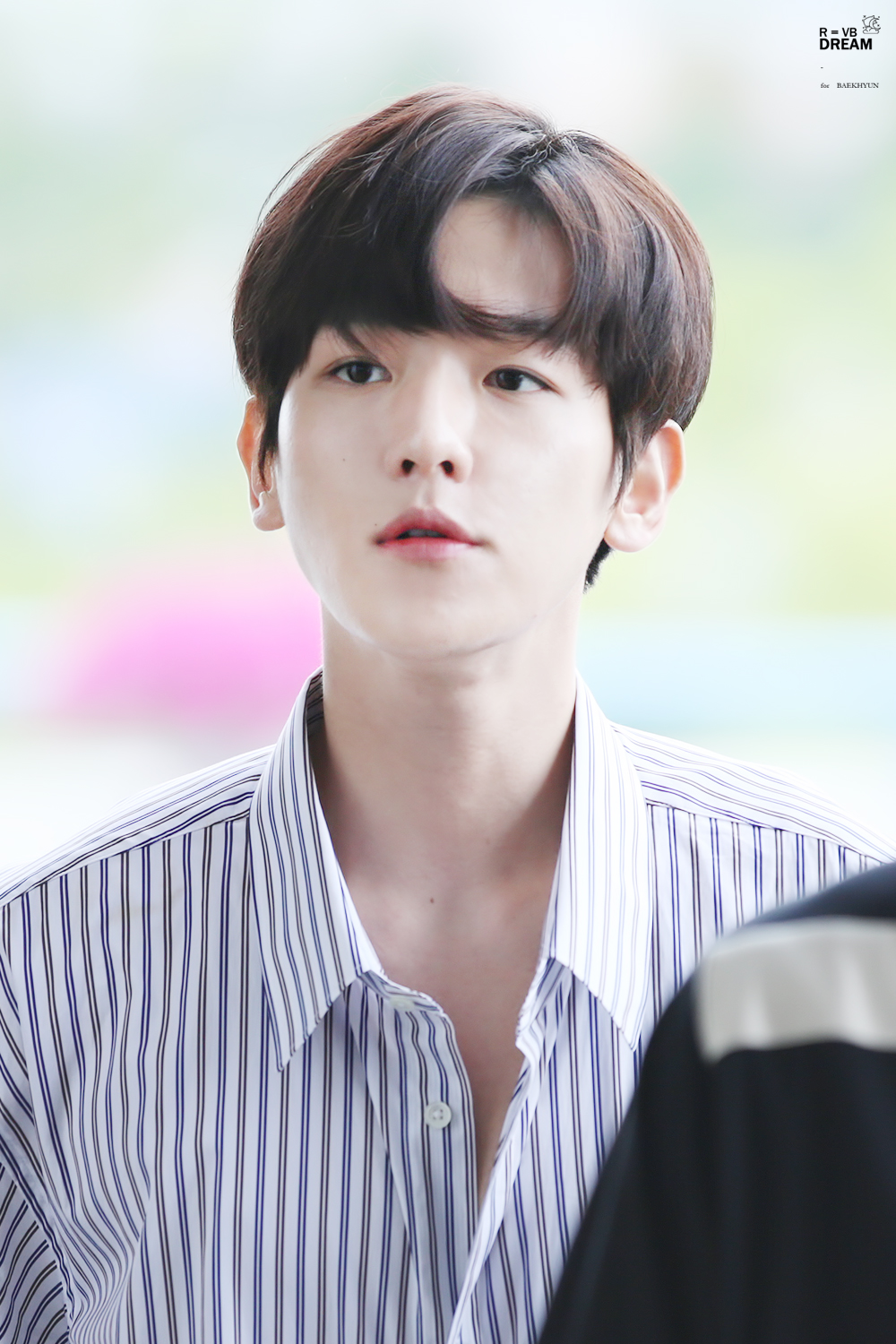 Byun Baek-hyun, departing from Gimpo Airport on June 6, 2017.